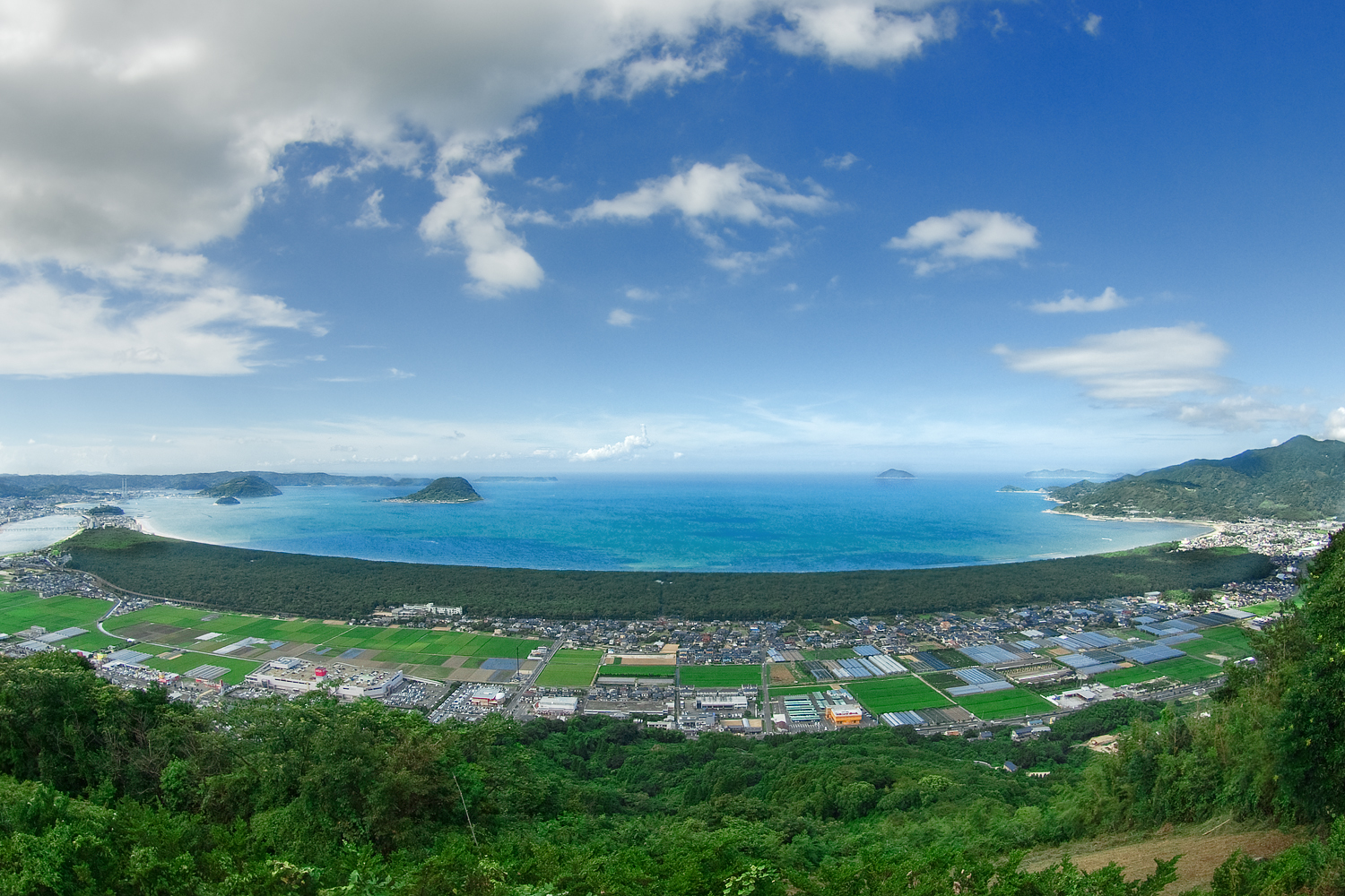 虹の松原全景（鏡山より）、Fisheye View of Nijinomatsubara